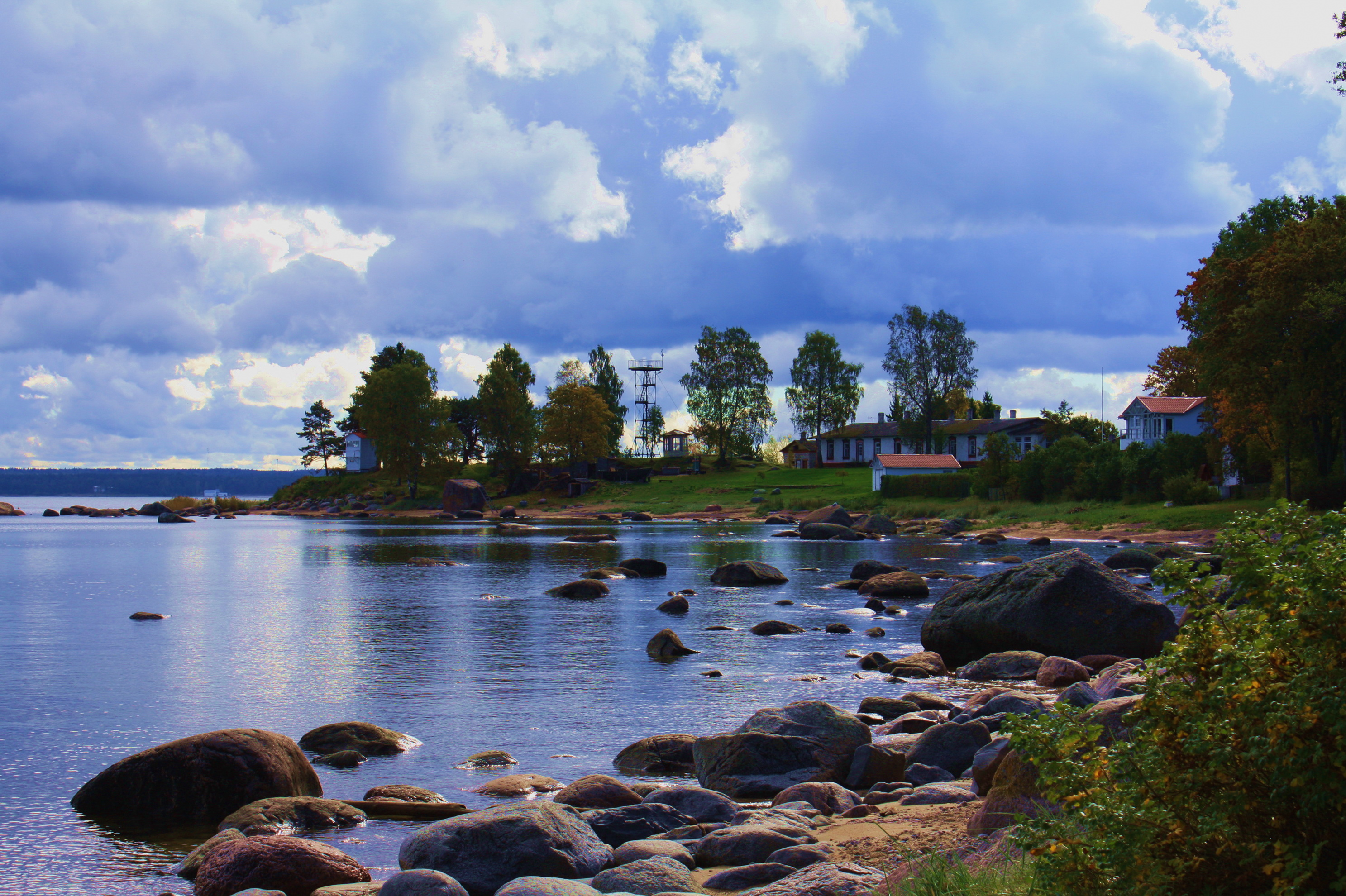 Kasmu sea museum